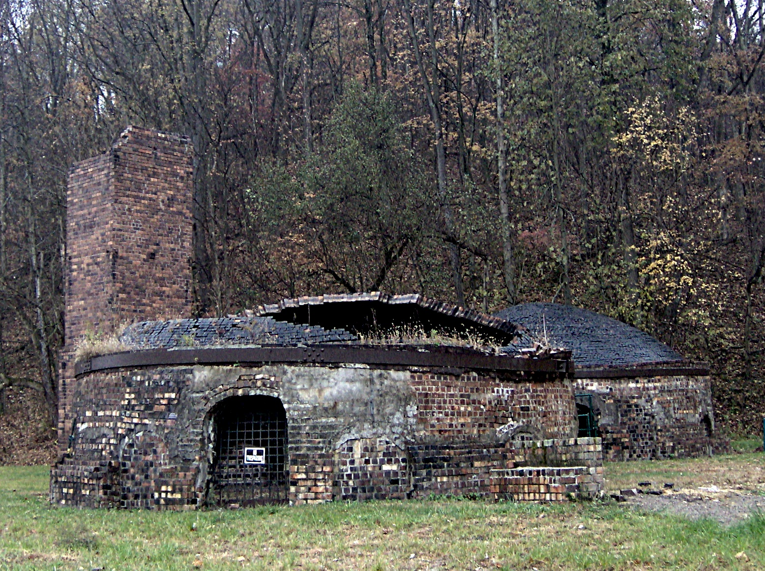 Historic brick kilns on Ohio State Route 278 just southwest of central Nelsonville, Ohio